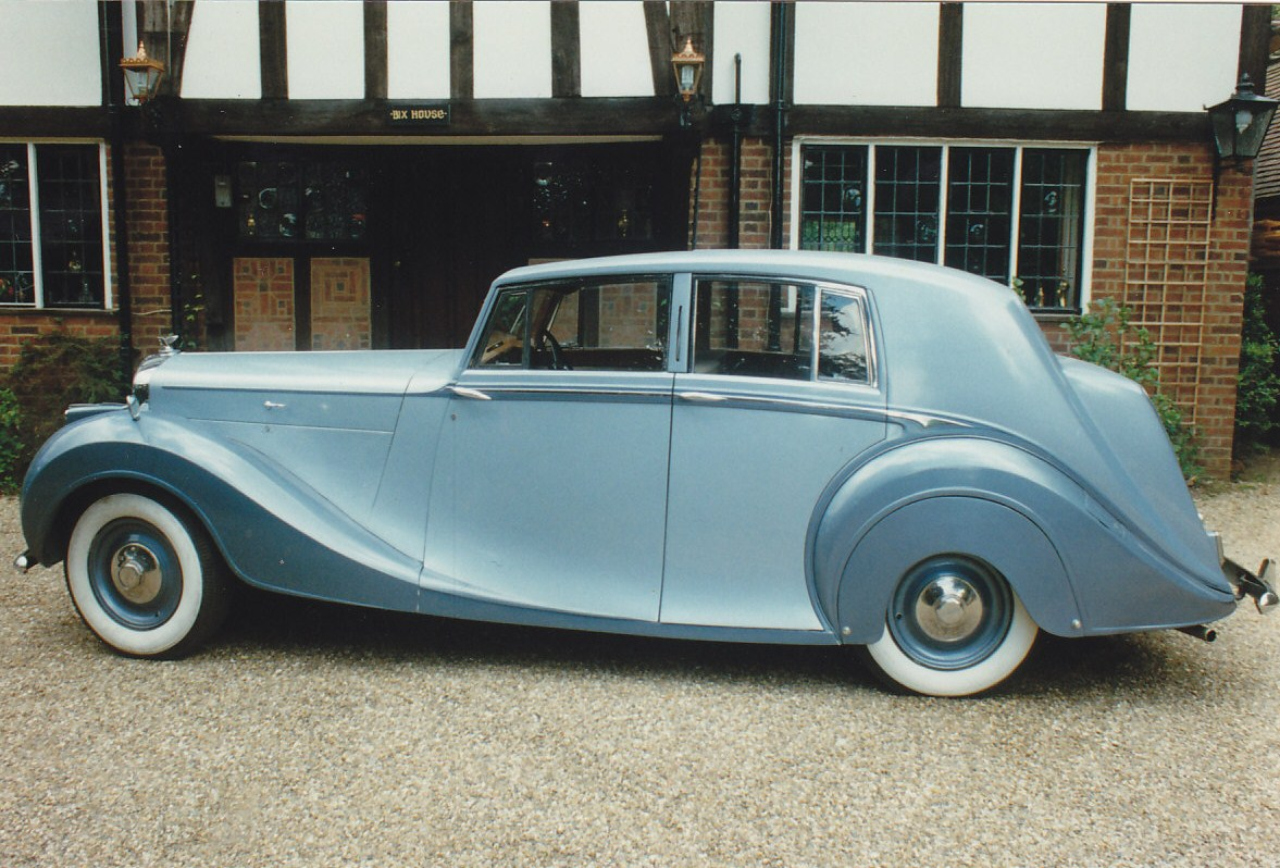 Bentley MK VI (#B365EW) Hooper Saloon 1950